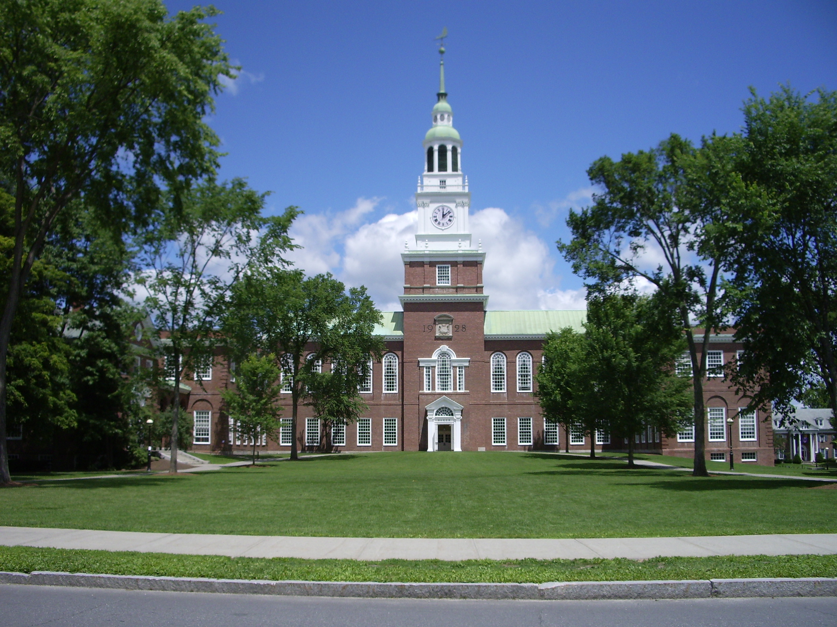 Photograph of Baker Memorial Library at the campus of Dartmouth College in Hanover, New Hampshire.